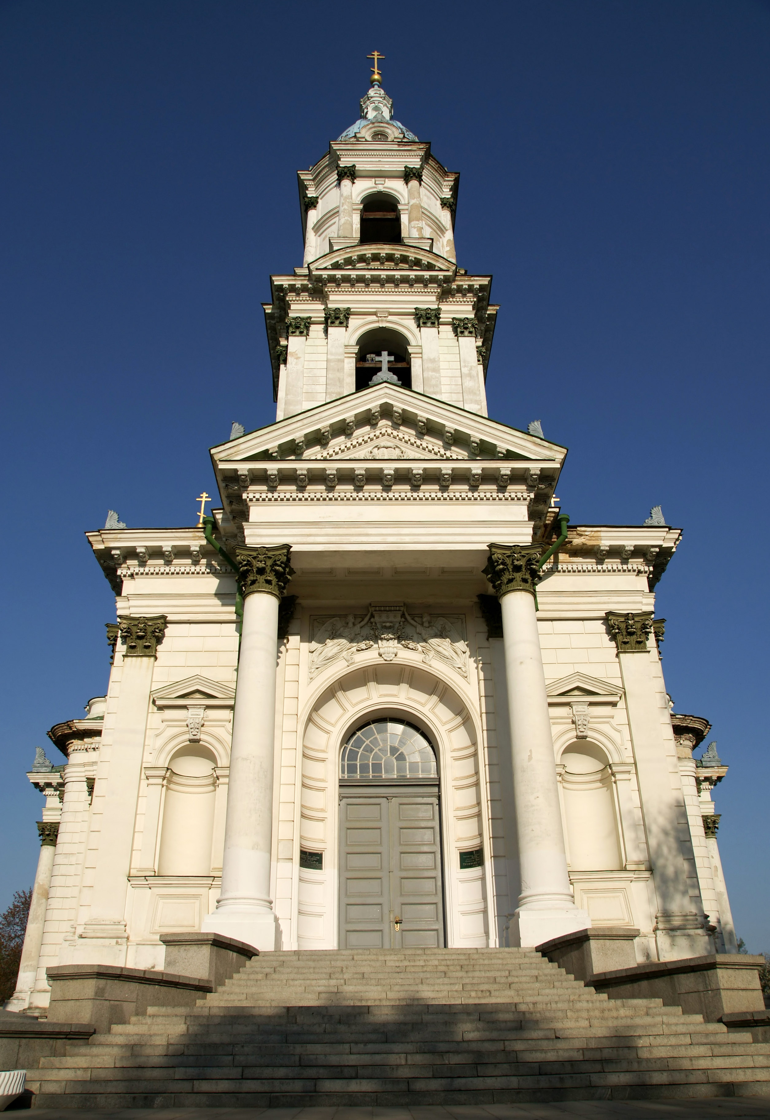 Trinity Cathedral in Sumy